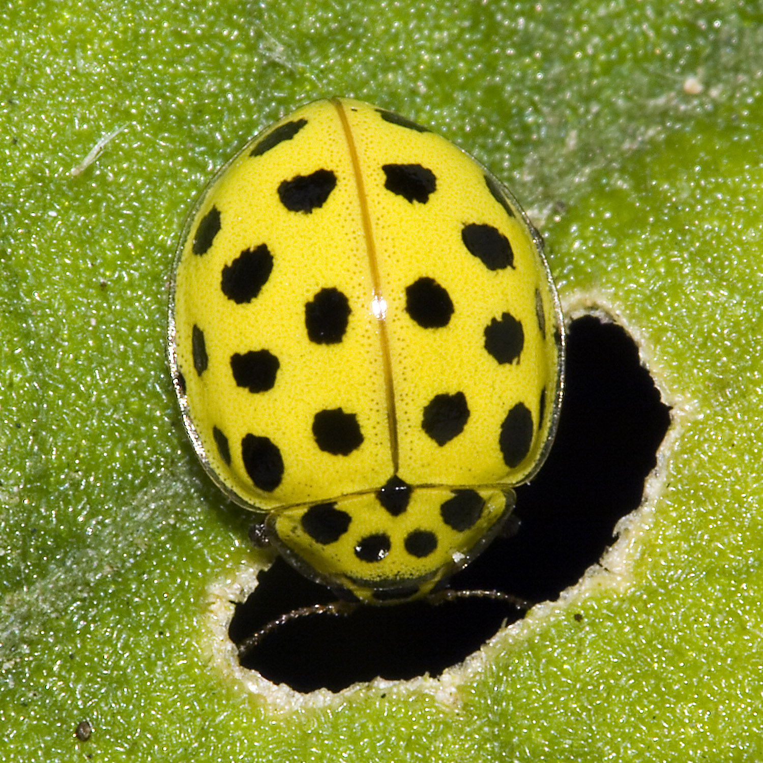 22 spot ladybird (Psyllobora vigintiduopunctata)